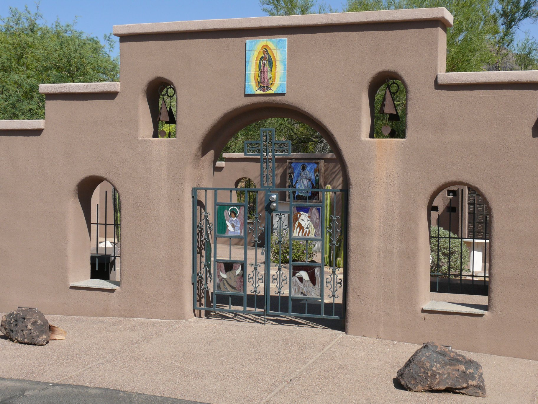 Saint Stephen's Byzantine Catholic Cathedral of Phoenix (Arizona, USA).